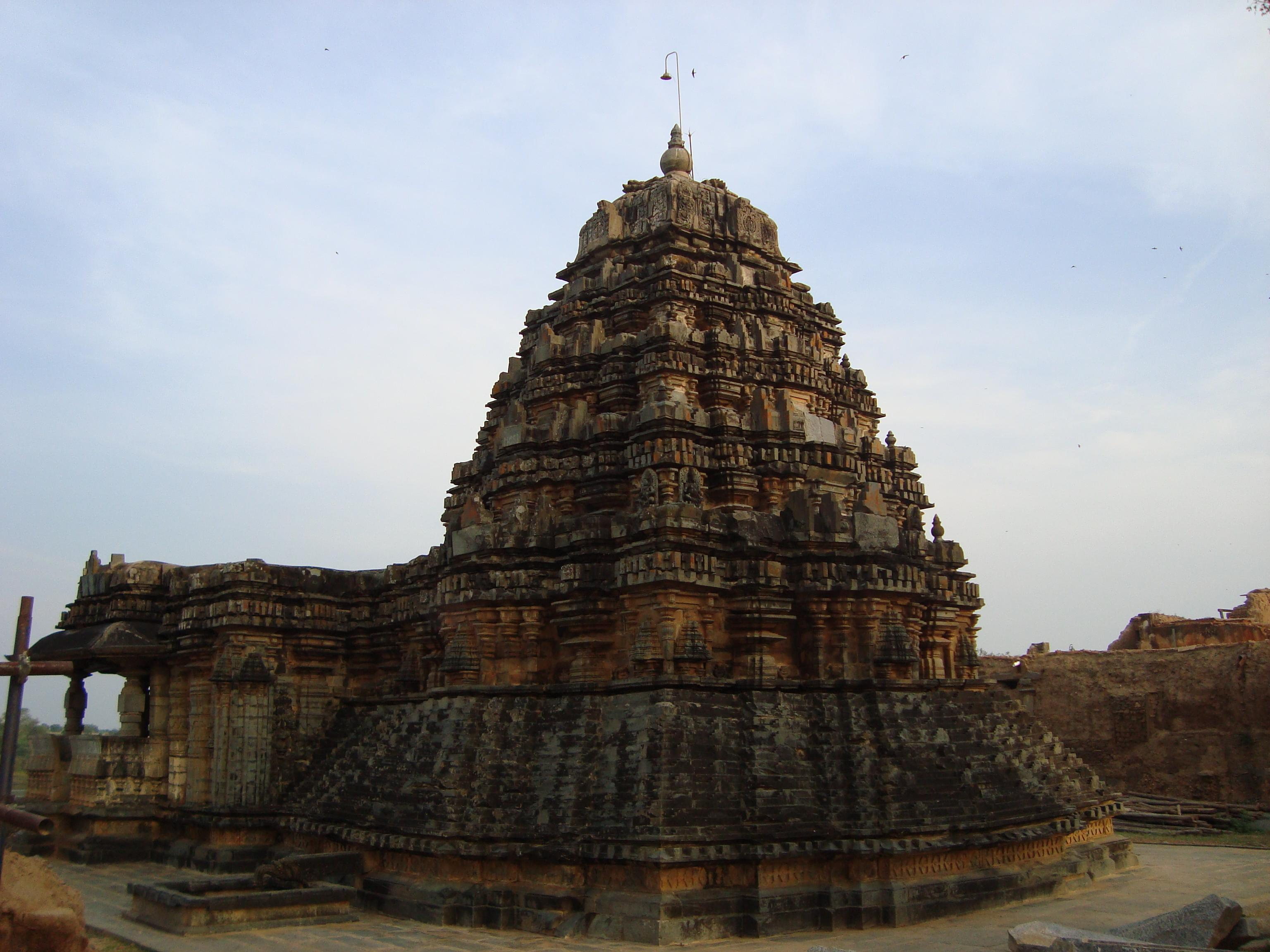 Galageshwara temple Galaganatha, Haveri District, North Karnataka, India